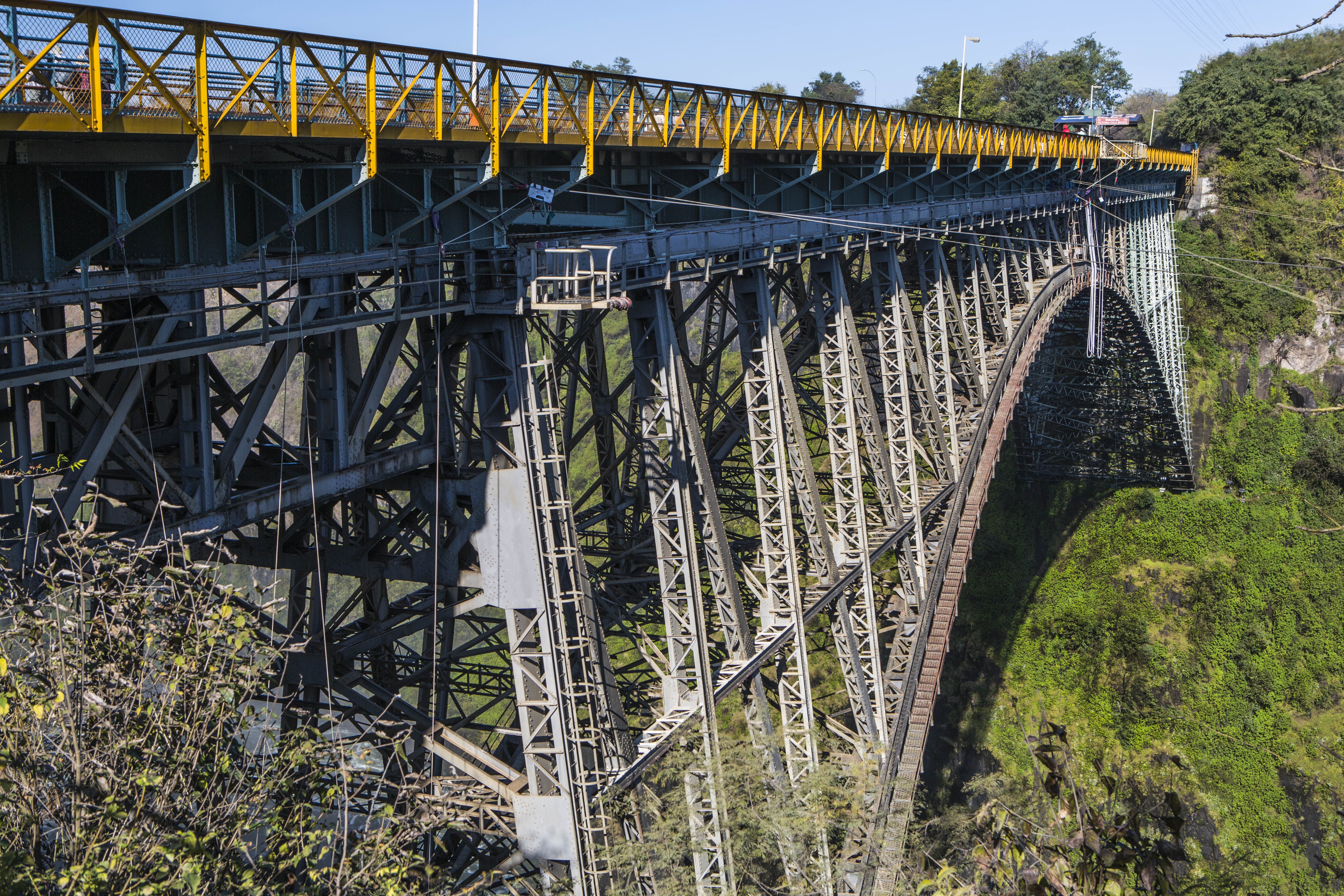 Victoria Falls Bridge from the Zimbabwean side